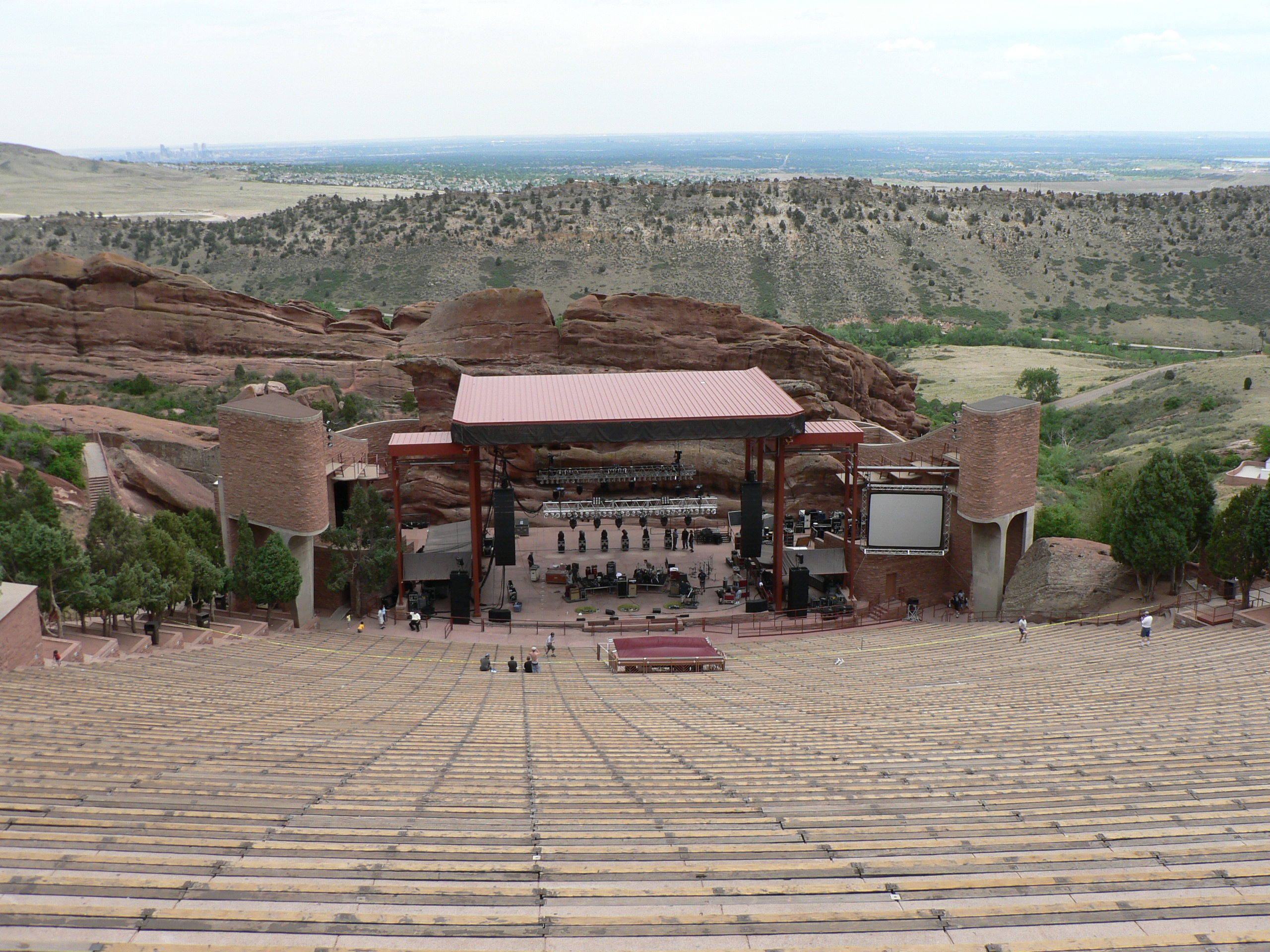 Red Rocks Amphitheatre